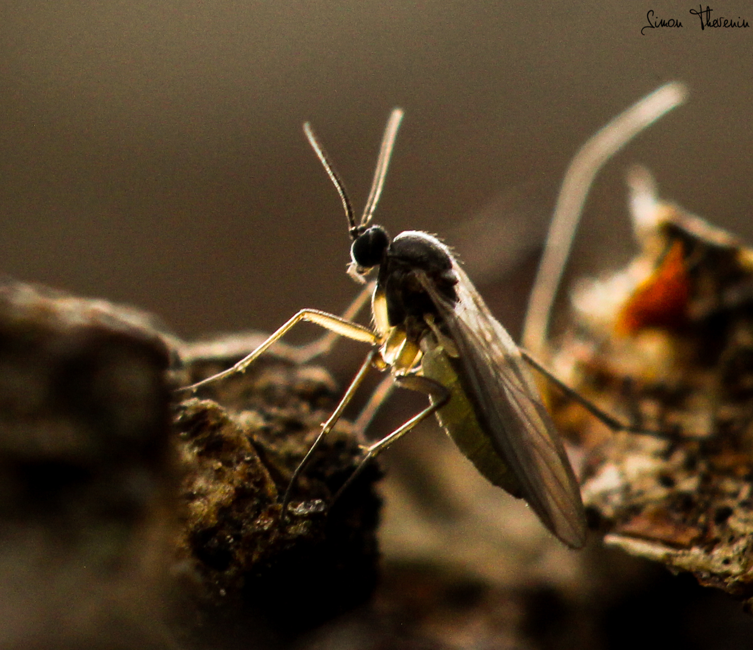 Sciaridae femelle